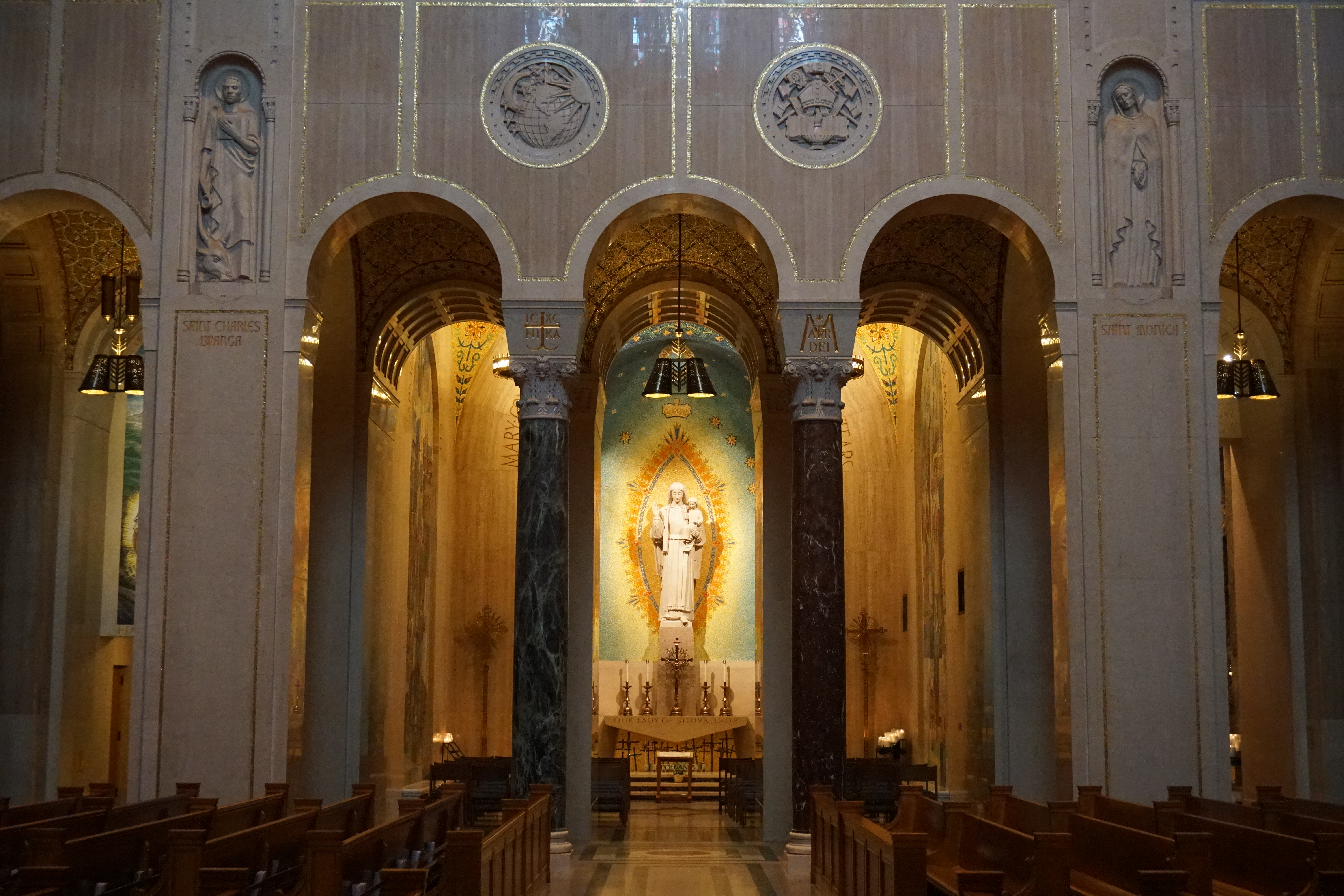 Lithuanian Our Lady of Šiluva chapel in Washington, DC. The image was created as part of the "Destination America 2017" non-commercial project to map and document Lithuanian-American sites. More information about Washington Lithuanian sites is available at